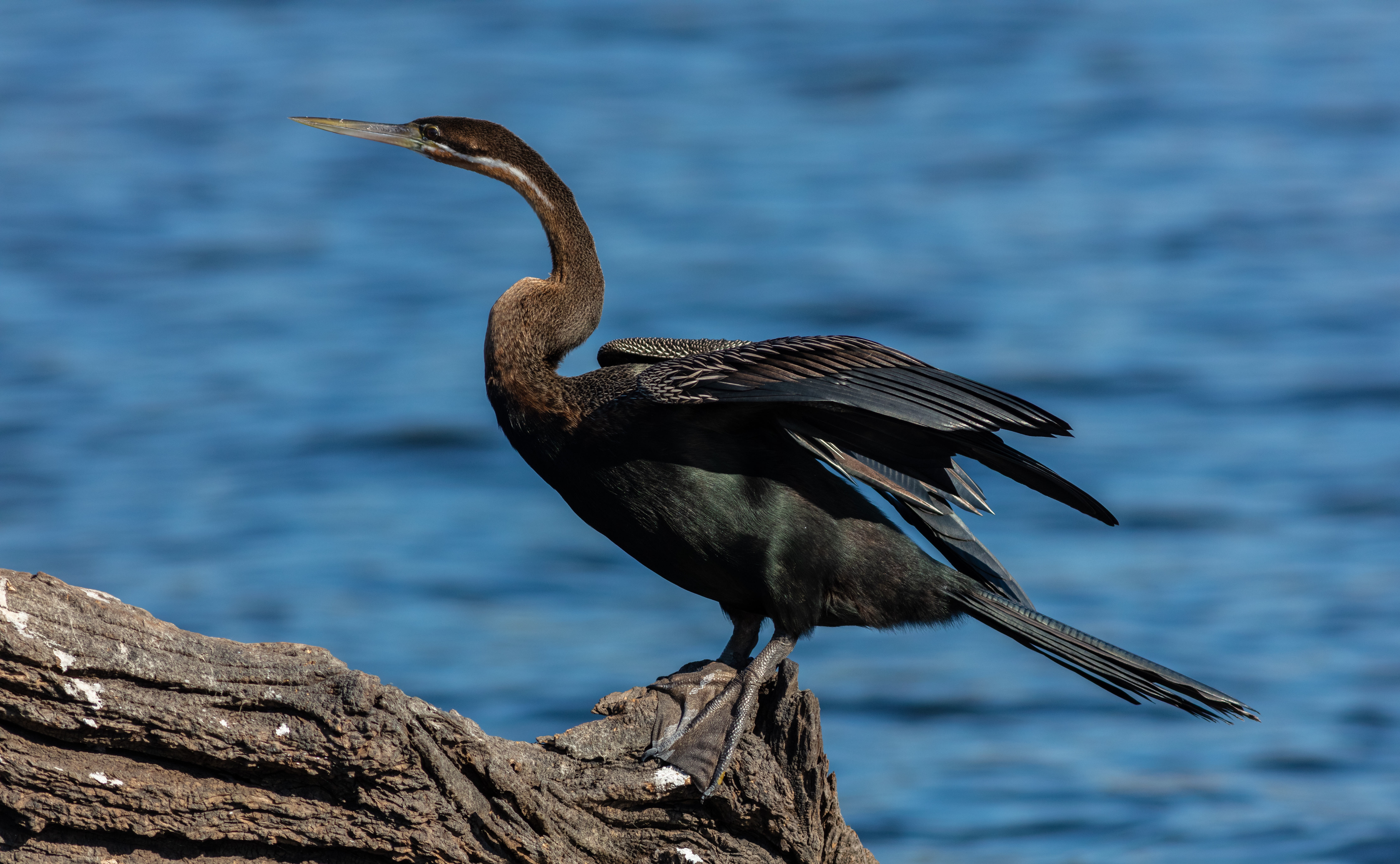 Exemplar of African darter (Anhinga rufa) looking for fish in the Chobe River, Chobe National Park, Botswana.